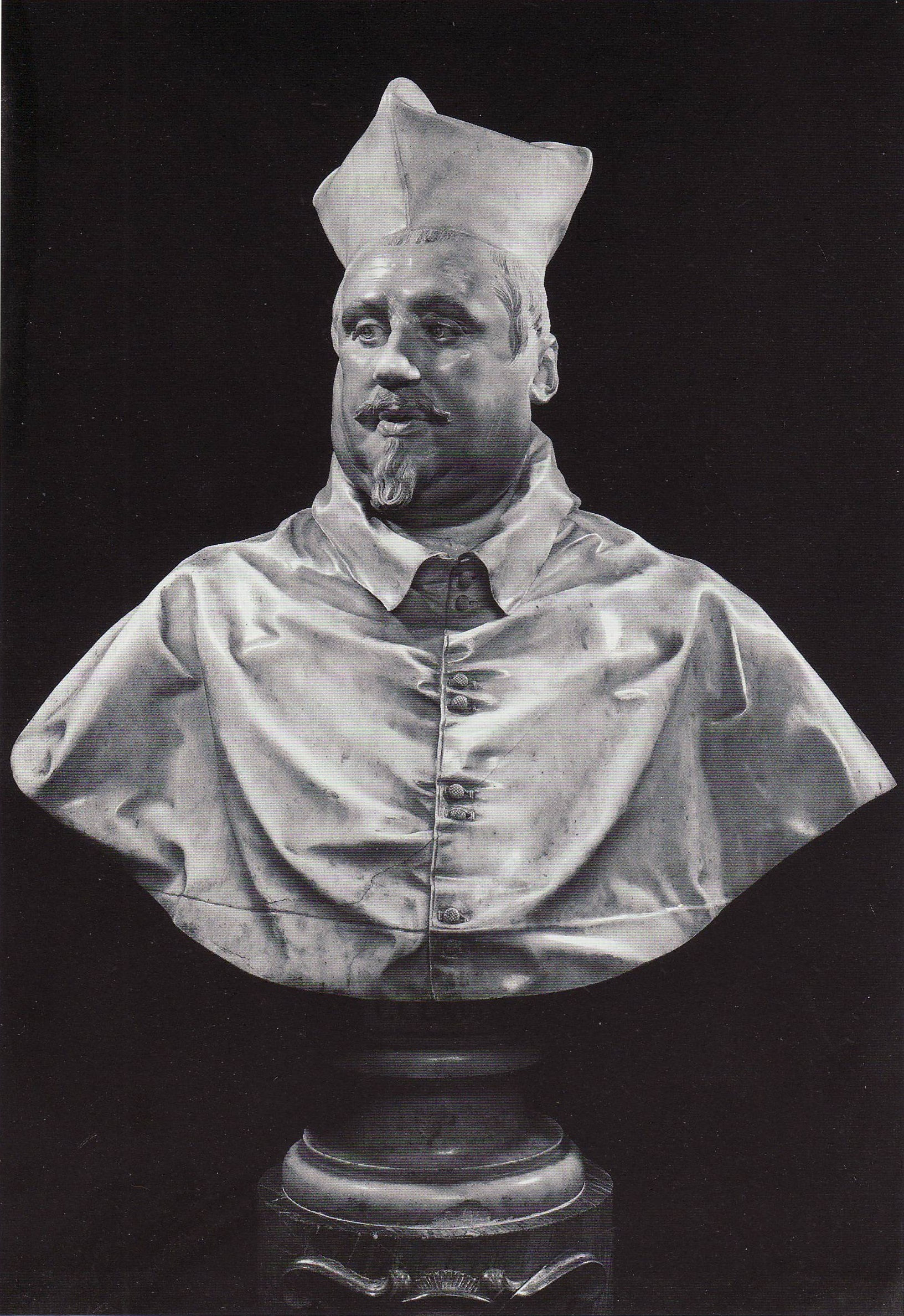 Gian Lorenzo Bernini (Napoli 1598 - Roma 1680) Busto del cardinale Scipione Borghese 1632 Carrara Marble, h. cm 77,2, h. base cm 21